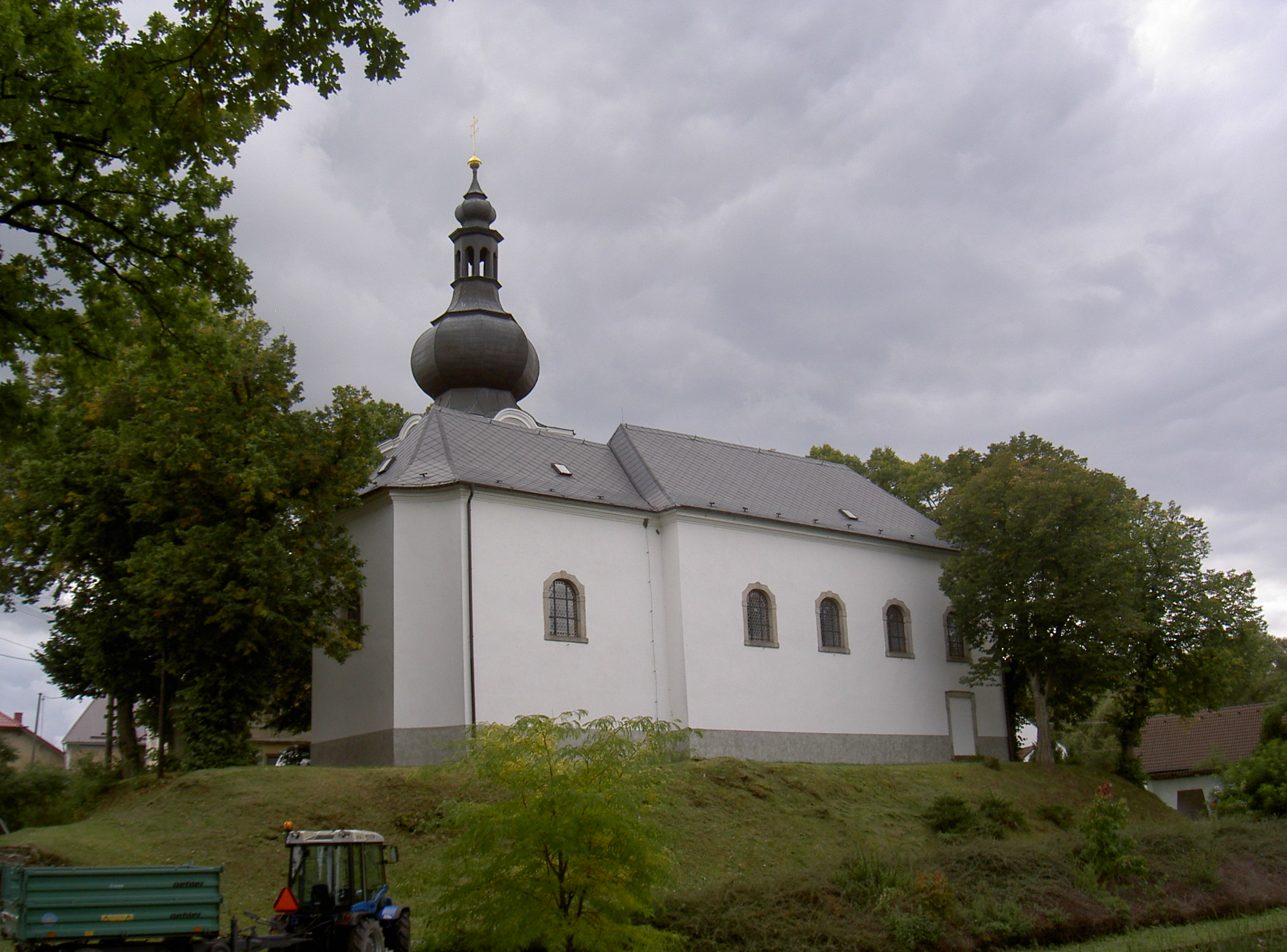 Church of Saint Michael (Dubec)